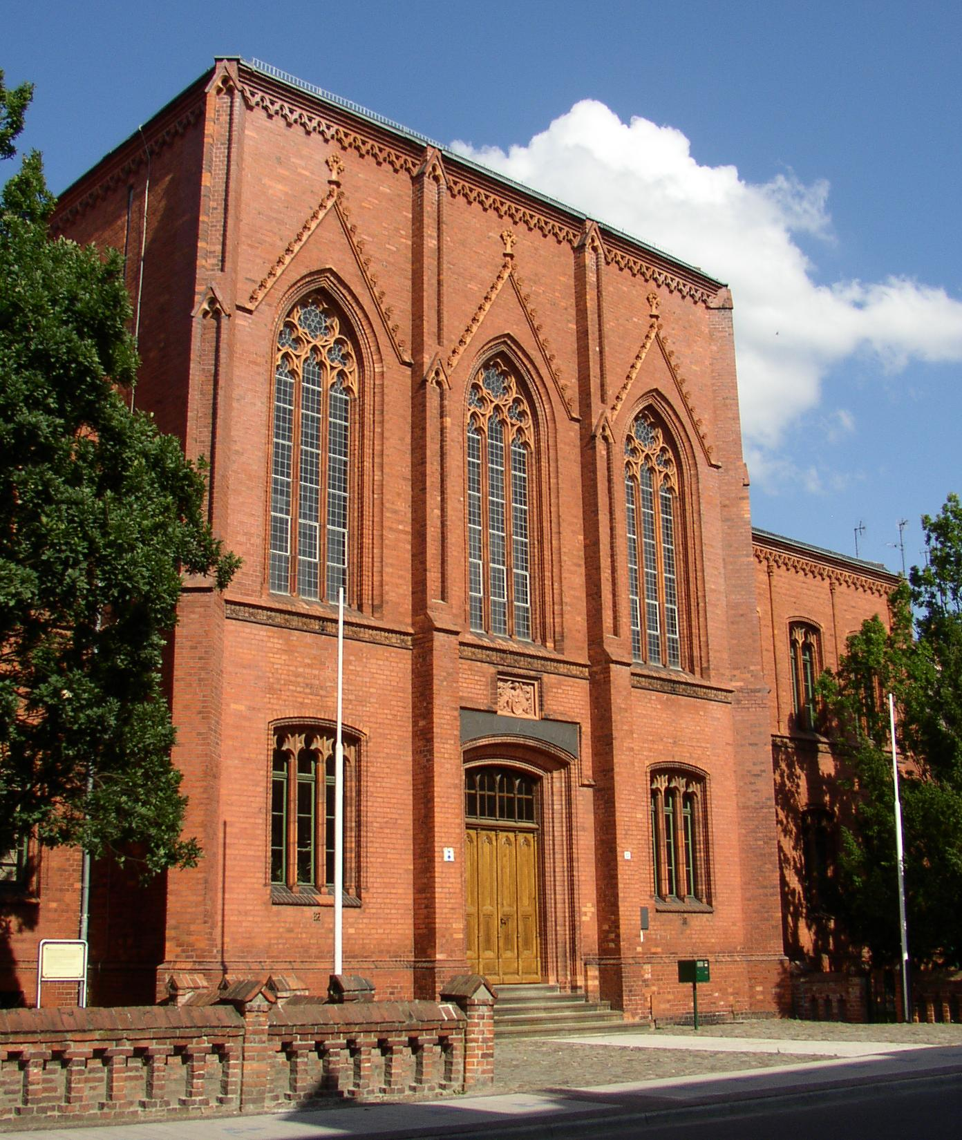 Secondary School in Perleberg in Brandenburg, Germany